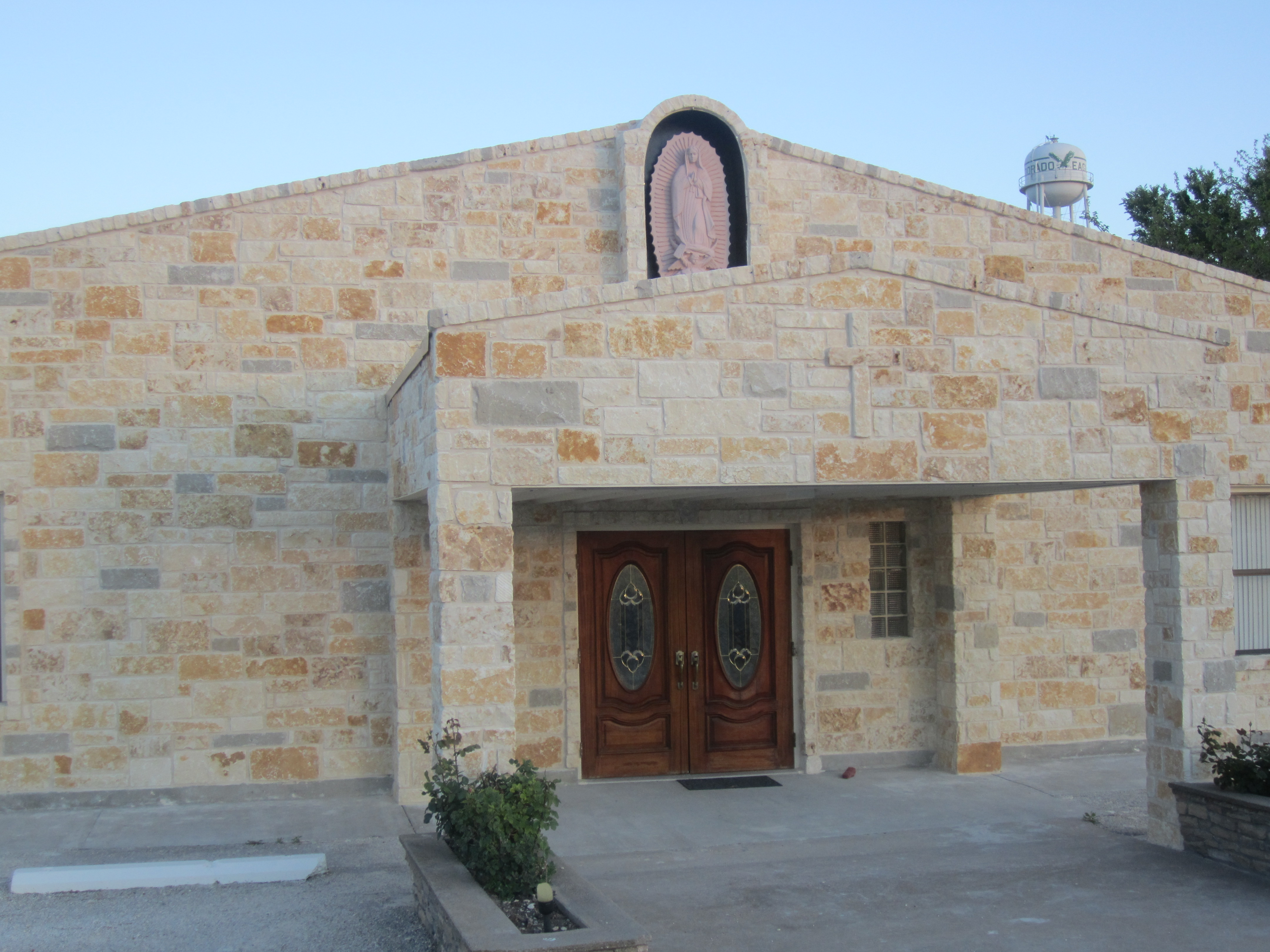 I took photo with Canon camera in Eldorado, TX.